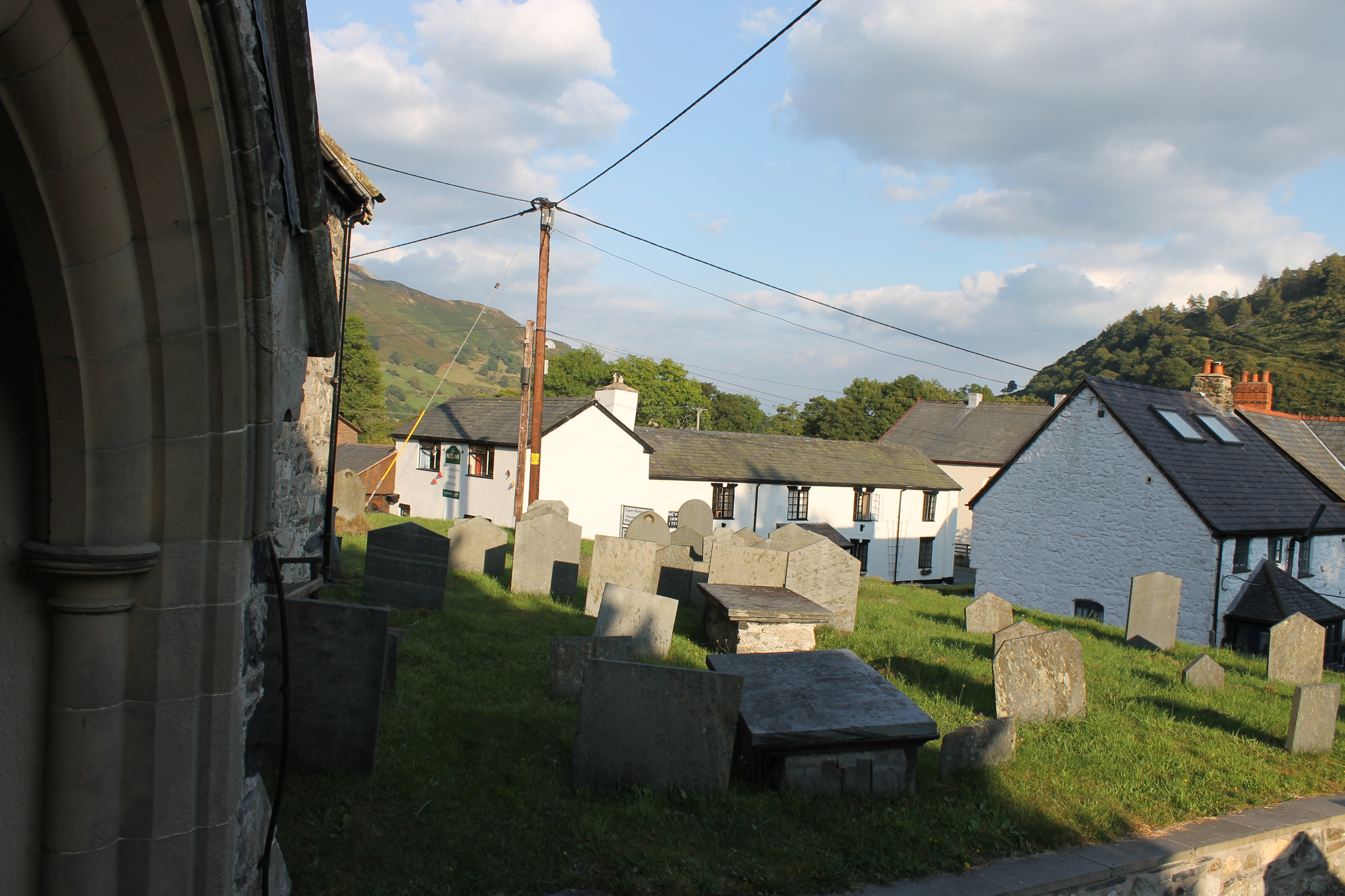 Church of St Cynog, Llangynog, Powys, SY10 0ES, is located at the centre of the village of Llangynog, in a raised churchyard enclosed by a tall wall. Dated 1791 in wall at north of churchyard.